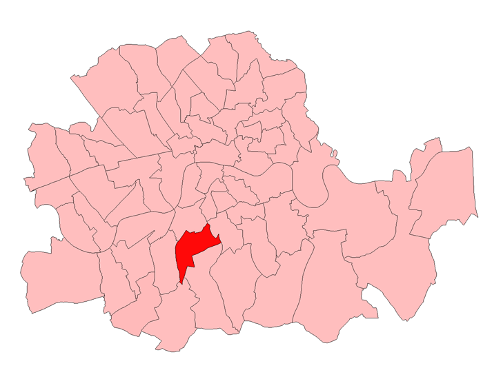 A map of Brixton constituency within the London County Council area, as it existed from 1918 to 1949.